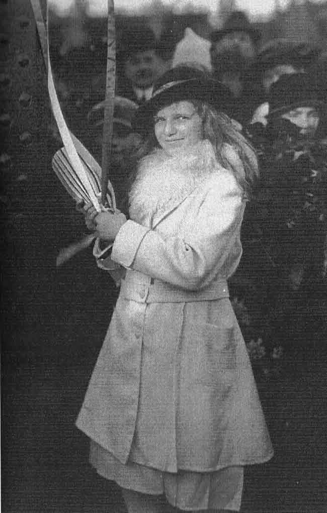 Bertha Coontz sponsoring the United States Navy submarine on N-3s launching ceremony